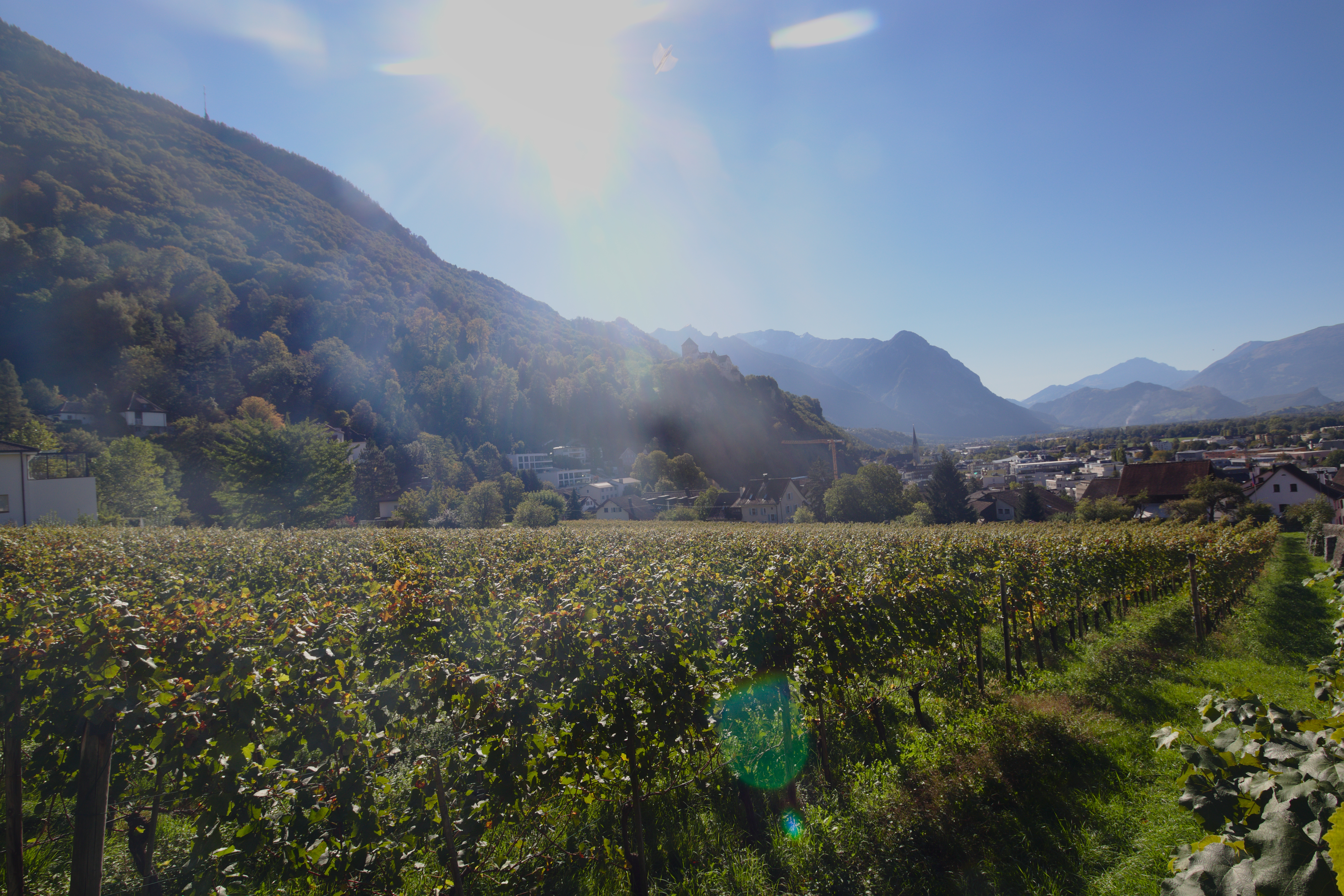 Vaduz (Liechtenstein): vineyard, view onto the town of Vaduz